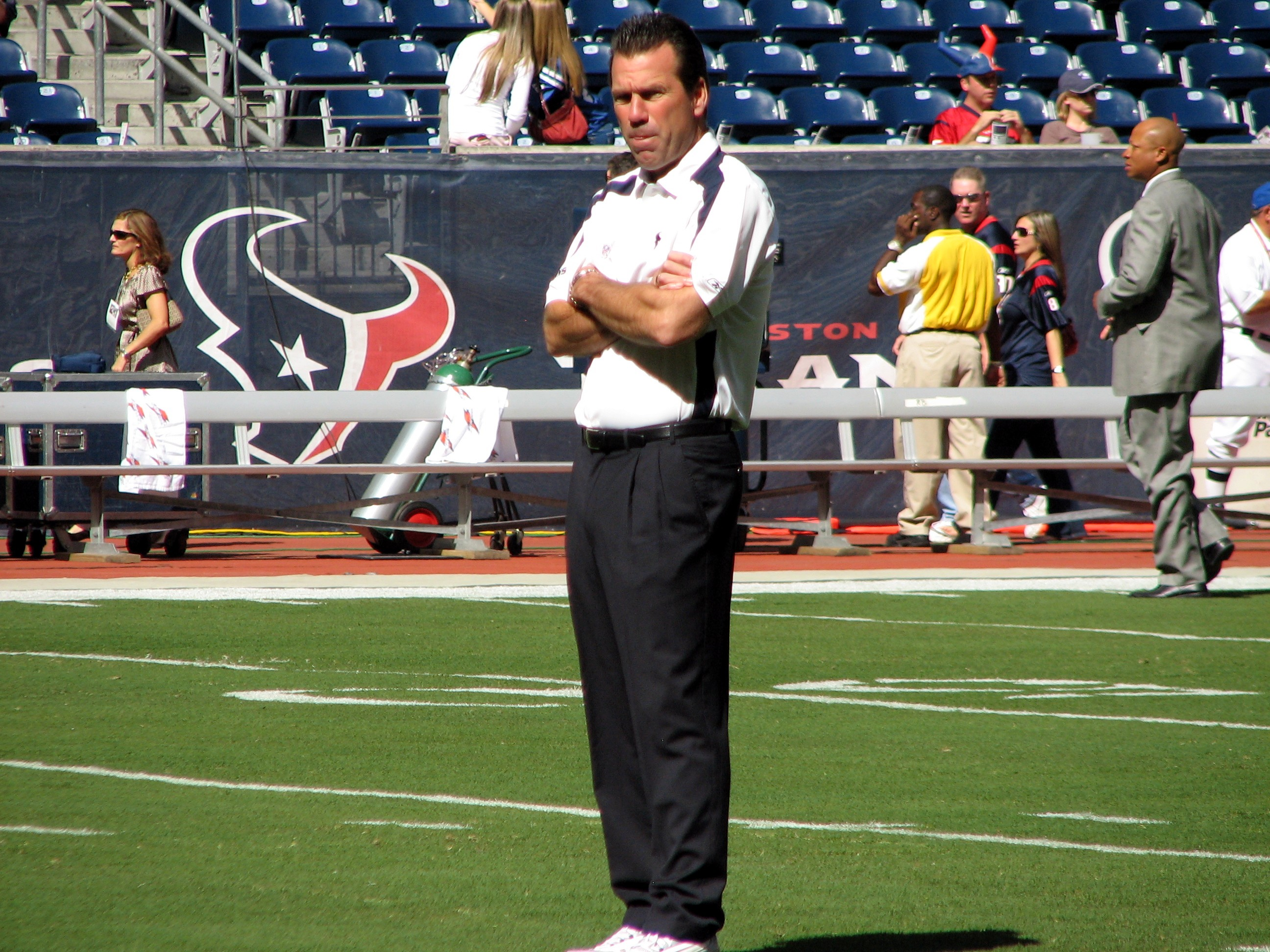 Houston Texans head coach, Gary Kubiak at a game against the Indianapolis Colts